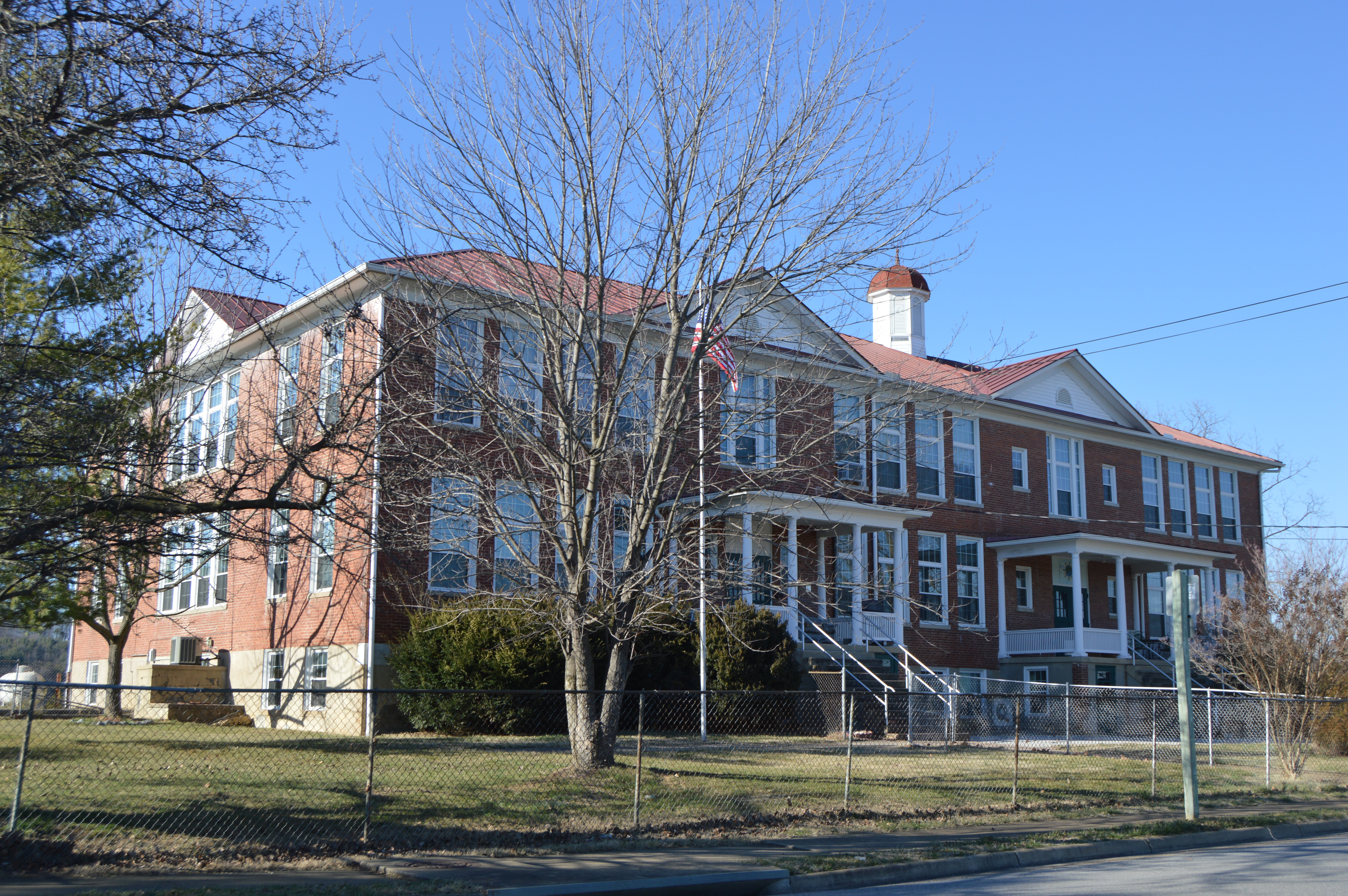 Front of the Weyers Cave School, located on State Route 276 in Weyers Cave, Virginia, United States. Built in 1928, it is listed on the National Register of Historic Places.